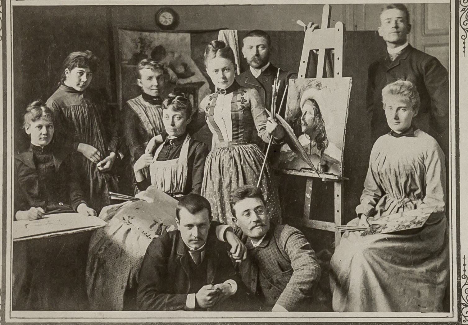 Students at Axel Kulle's school of painting in Stockholm in 1889.